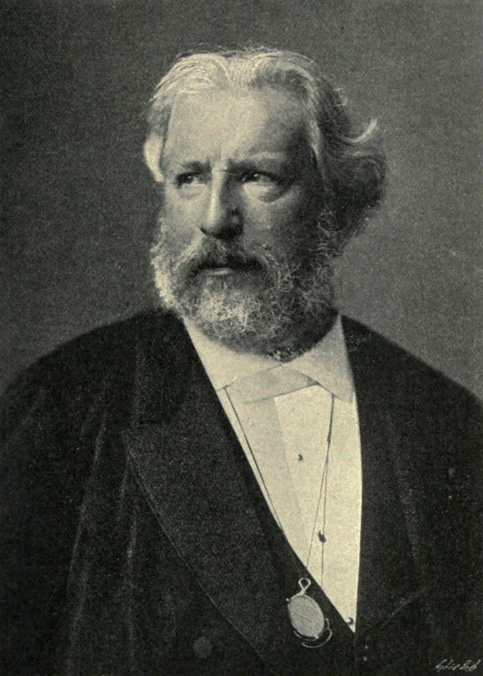 Portrait of William-Adolphe Bouguereau